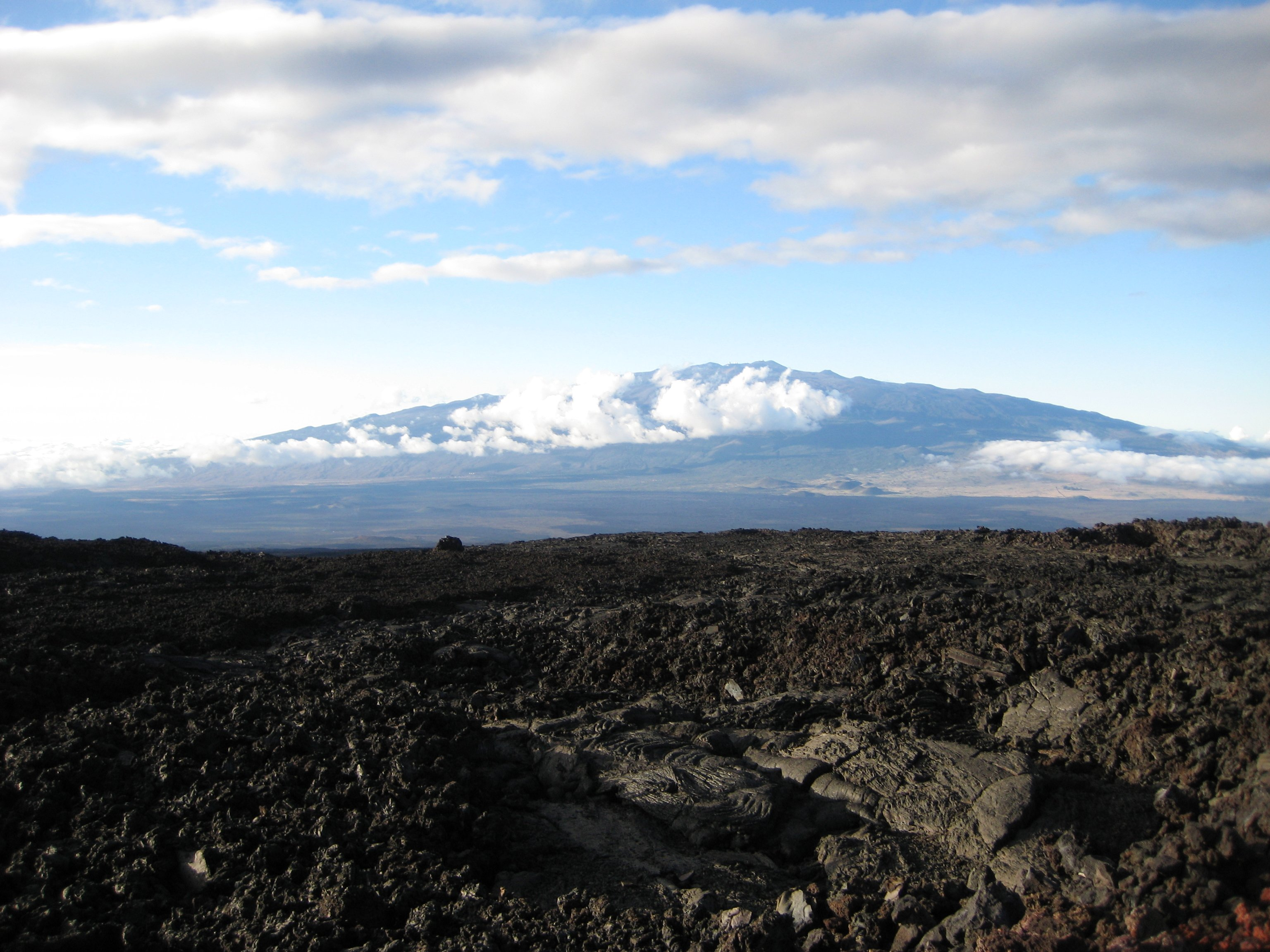 Mauna Kea shield volcano viewed from Mauna Loa shield volcano on the Big island of Hawaiʻi.